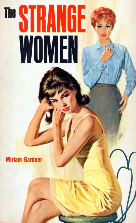 Cover of "The Strange Women" by Miriam Gardner (Marion Zimmer Bradley), Monarch Book 1962. Illustration by Tom Miller.